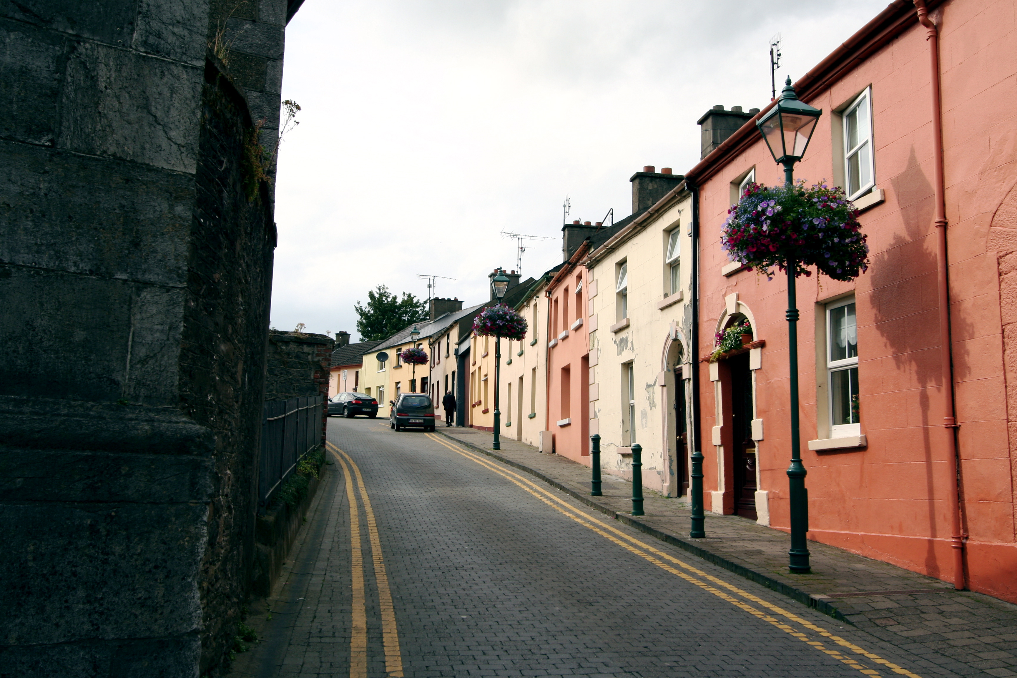 Kells, County Meath